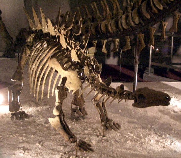 Skeleton of Chungkingosaurus jiangbeiensis displayed in Hong Kong Science Museum